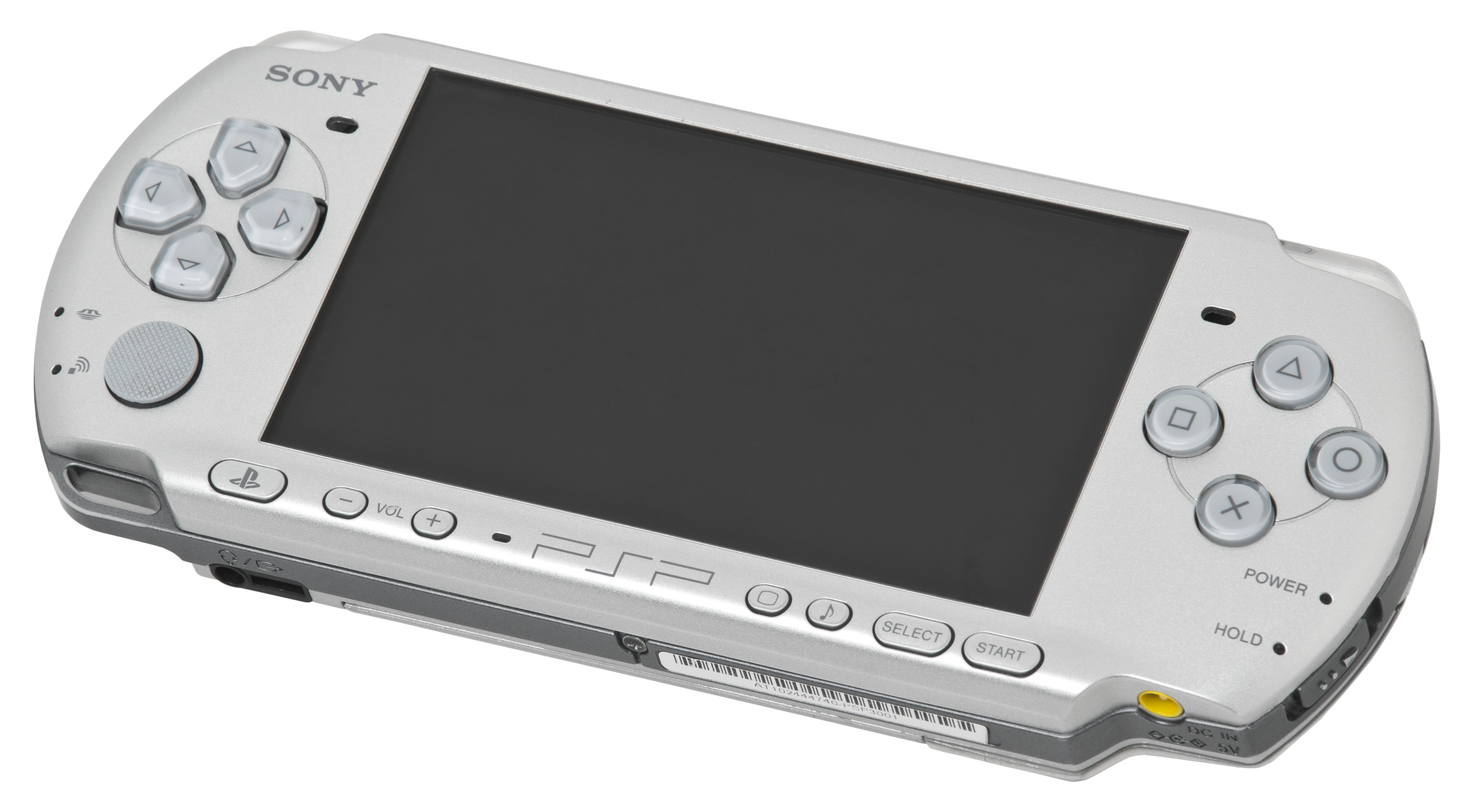 A silver PSP-3000, the third-generation model of the PlayStation Portable portable game console.